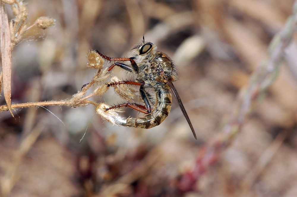 Oviposition, St. Guilhem le Desert, Languedoc-Roussillon, France